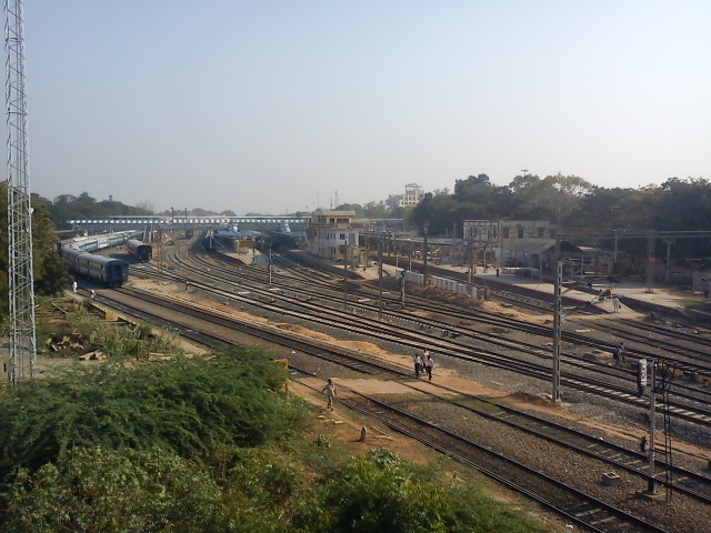 MADURAI JUNCTION VIEW